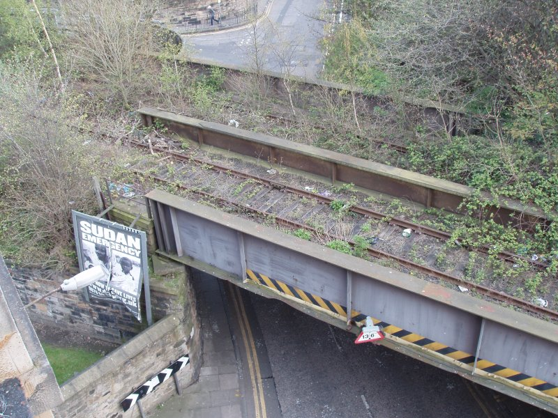 Abbeyhill Junction: This used to connect the east coast mainline route from Waverley to Abbeyhill station and around the north side of Meadowbank. Became disused in the 1980s when the East Coast Main Line was electrified.